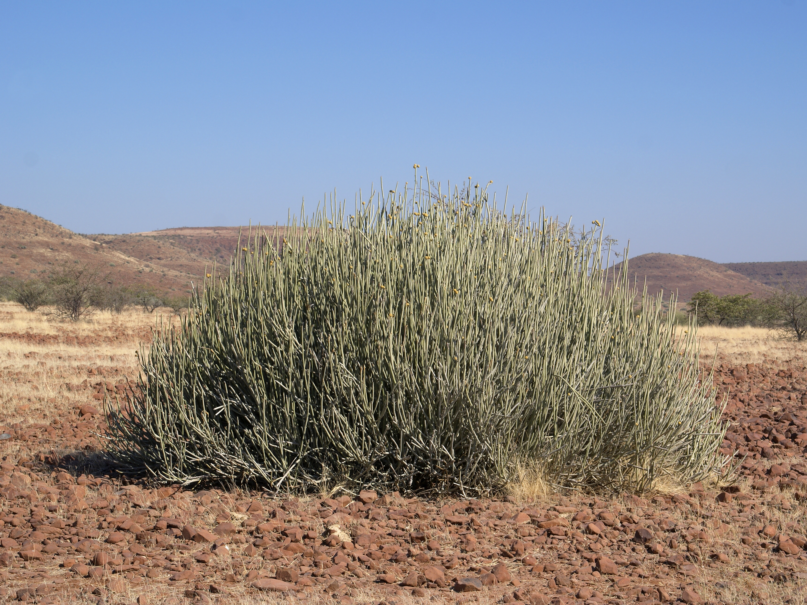 A Damara Euphorbia, an endemic Euphorbia, listed in CITES Appendix II. Close to Palmwag, Namibia